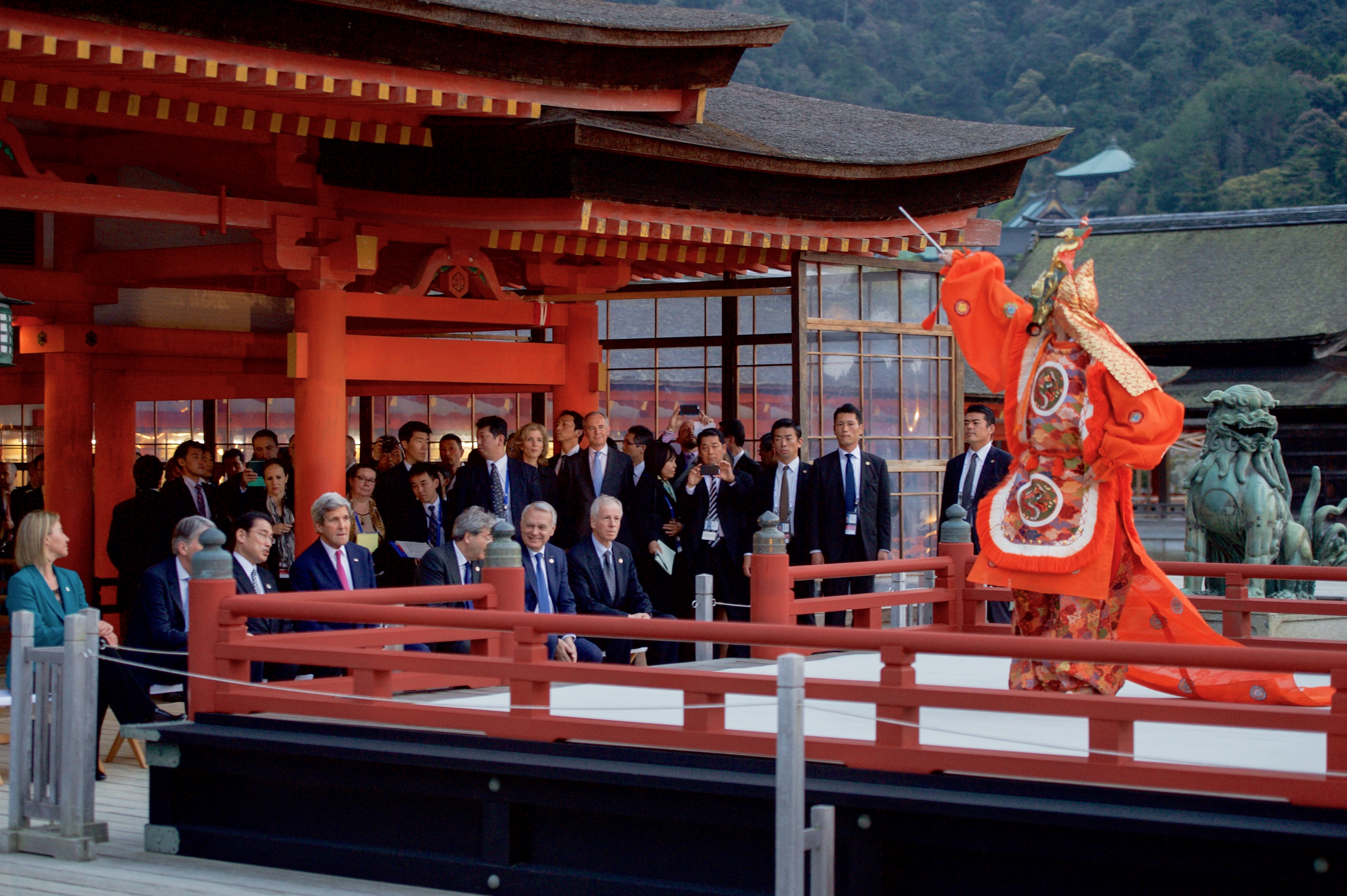 U.S. Secretary of State John Kerry sits with Japanese Foreign Minister Fumio Kishida and his counterparts from Canada, Italy, the European Union, France, and the United Kingdom on April 10, 2016, as they ferried to Miyajima Island for a walking tour of the Itsukishima Shrine off Hiroshima, Japan, amid the G7 Ministerial Meetings. [State Department Photo/Public Domain]